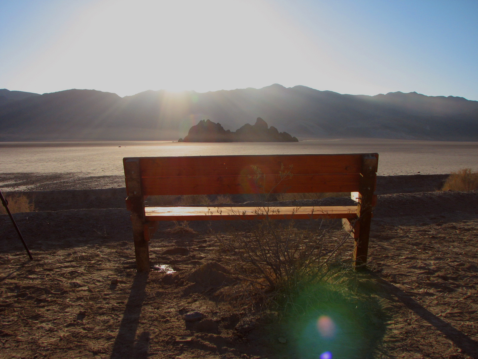 A late winter sunrise over the 'Grandstand' at the 'Race Track' in Death Valley National Park. This bench, with its view of the Grandstand in northeastern Death Valley, is located at an elevation of 3755 feet alongside the road running by the western side of the Racetrack - where the USNPS has installed informative placards. This wooden bench is provided free of charge to the public so that they might enjoy the scenic Western United States, and is another bench installed by the Mano Seca Group. All Mano Seca benches are branded and trademarked. Find all the other Mano Seca benches in the West!